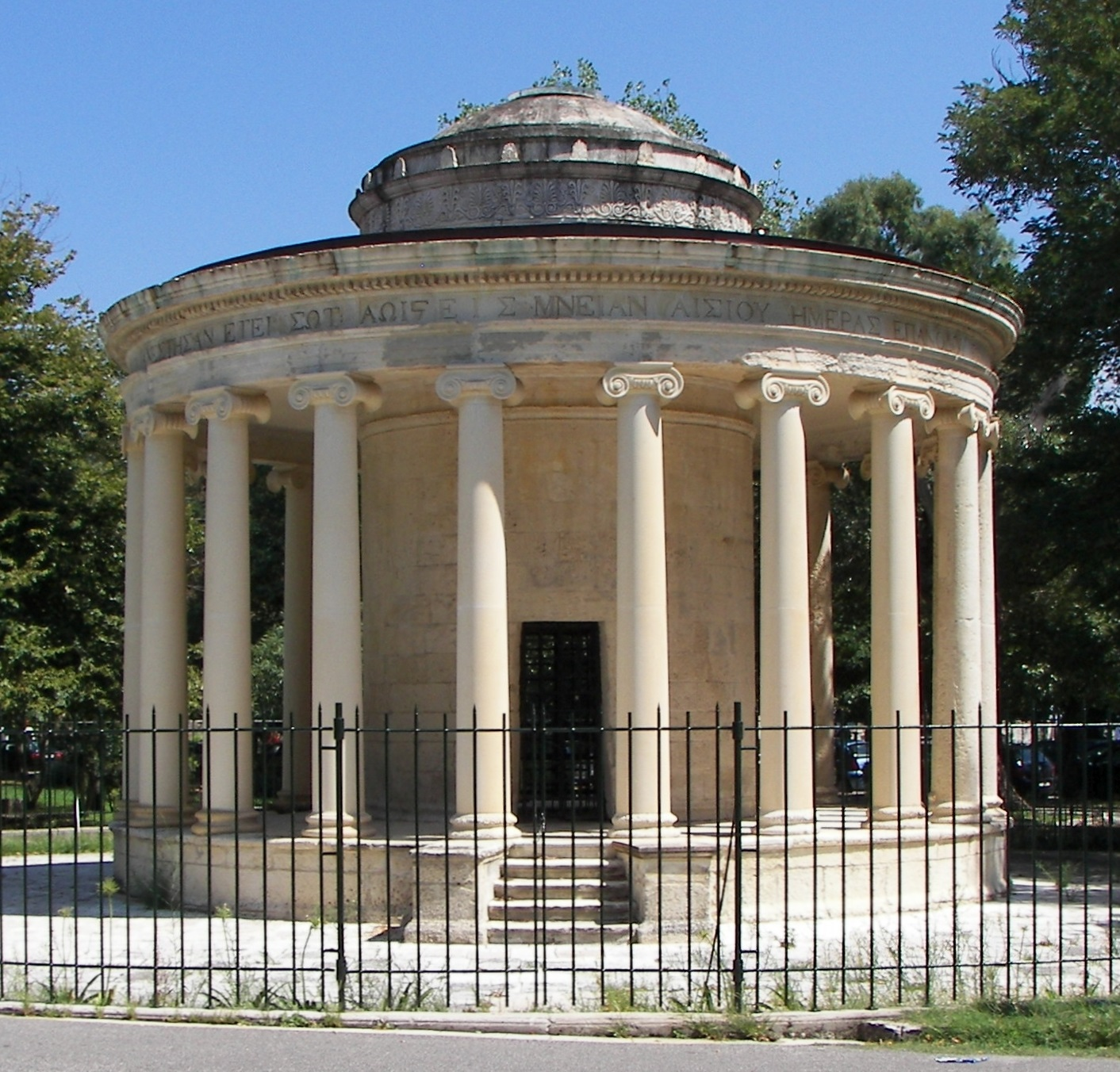 I am the author. Dr.K. 23:23, 8 September 2006 (UTC)